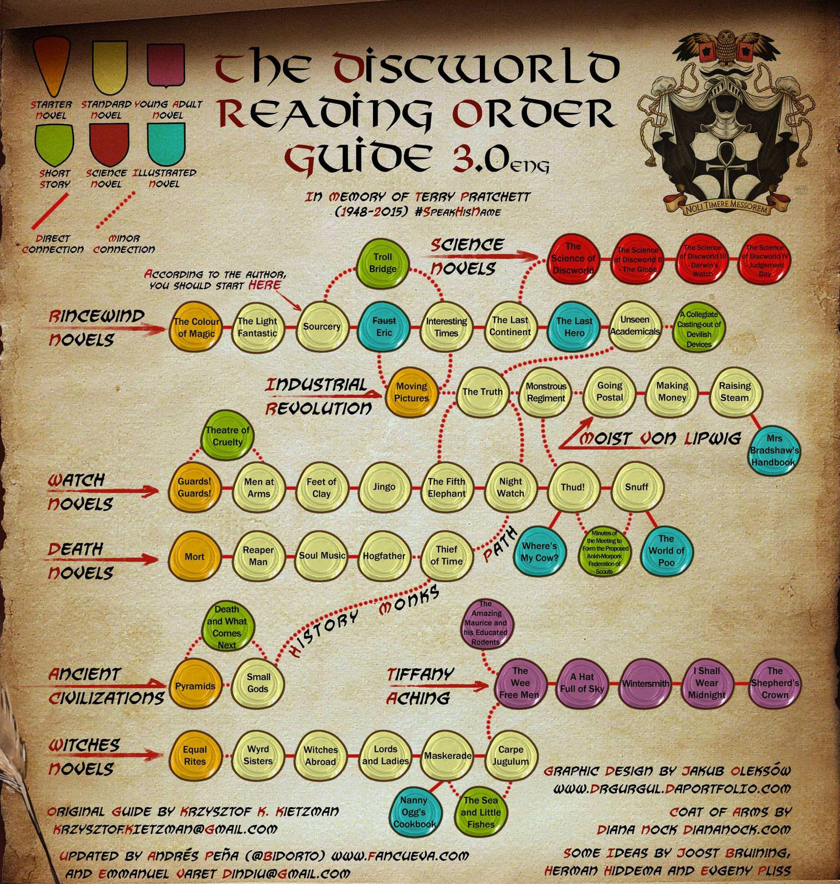 A fan-made diagram indicating how the various "Discworld" novels by Terry Pratchett relate to each other.